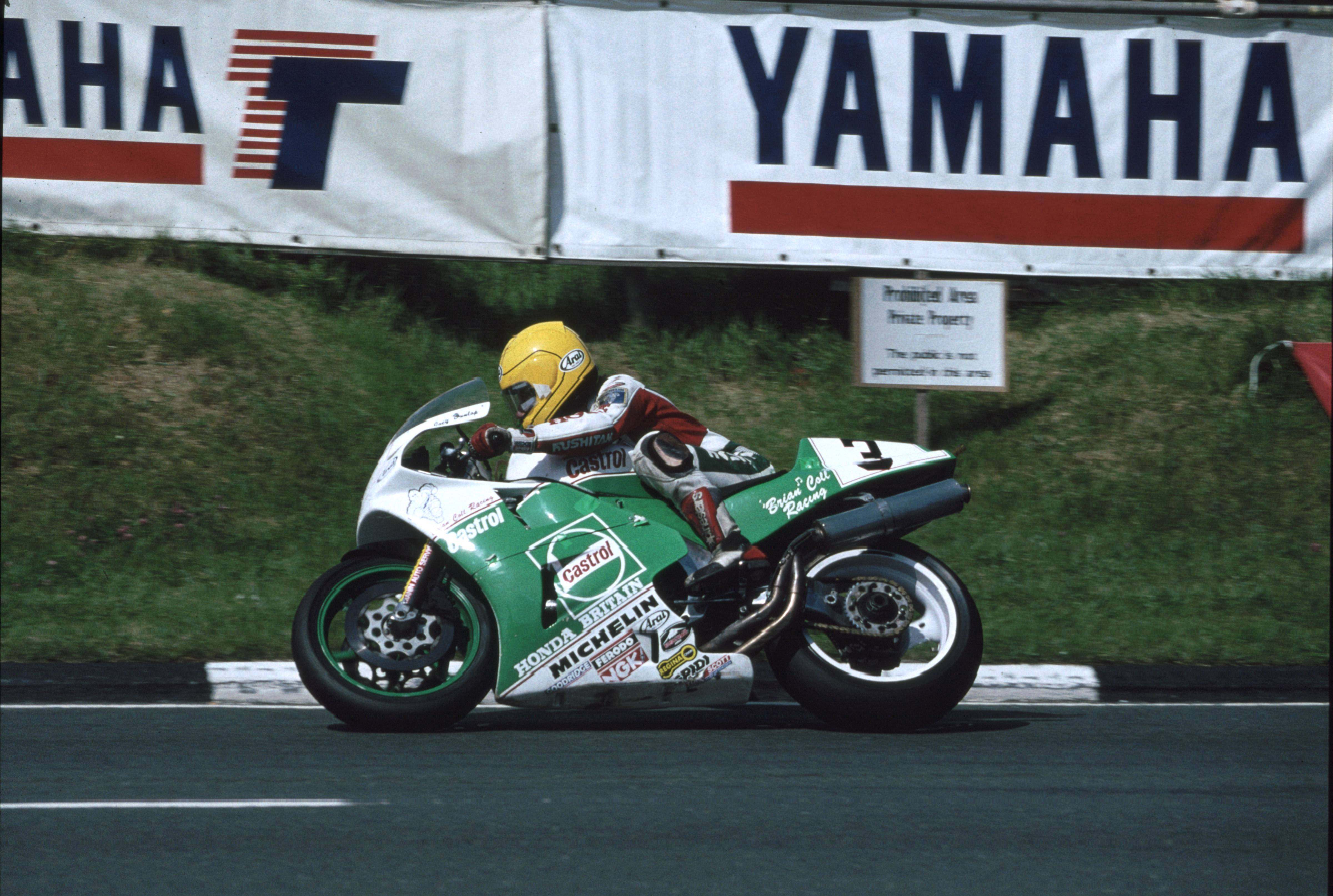 Joey Dunlop on his Honda RC30 at Creg-ny-Baa